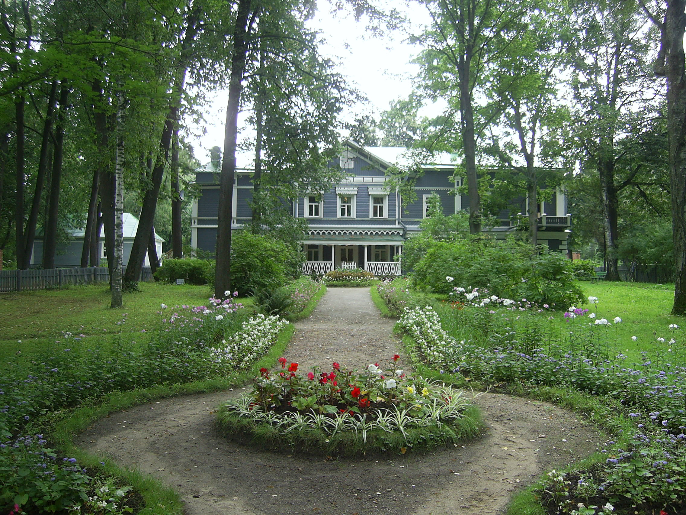 Museum of composer Pyotr Ilyich Tchaikovsky in Klin (Russia)